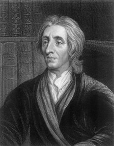 Engraving of the Godfrey Kneller portrait of John Locke (c.1697).